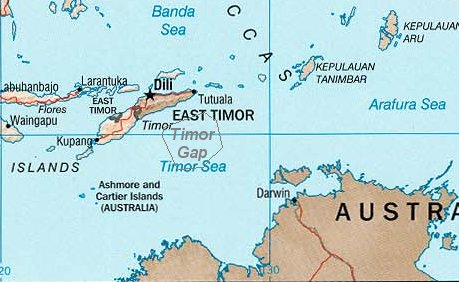 The Timor Sea, showing disputed exploitation zone the Timor Gap.